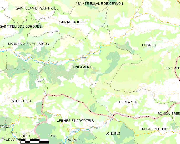 Map commune FR insee code 12155 (Fondamente)